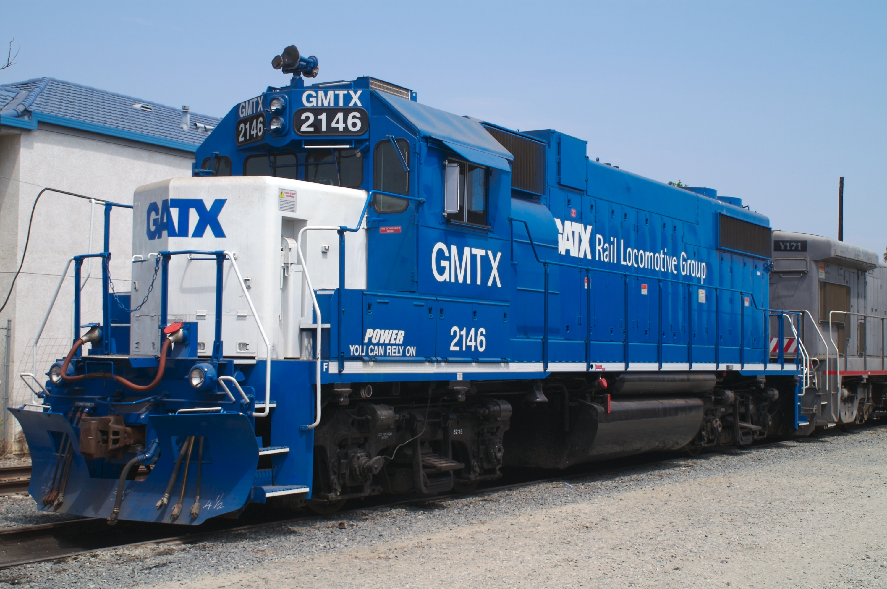 EMD GP38-2 locomotive GMTX 2146, owned by GATX Rail Locomotive Group, a locomotive leasing company. Photo taken in the Union Pacific Railroad depot at Anaheim, California, USA.